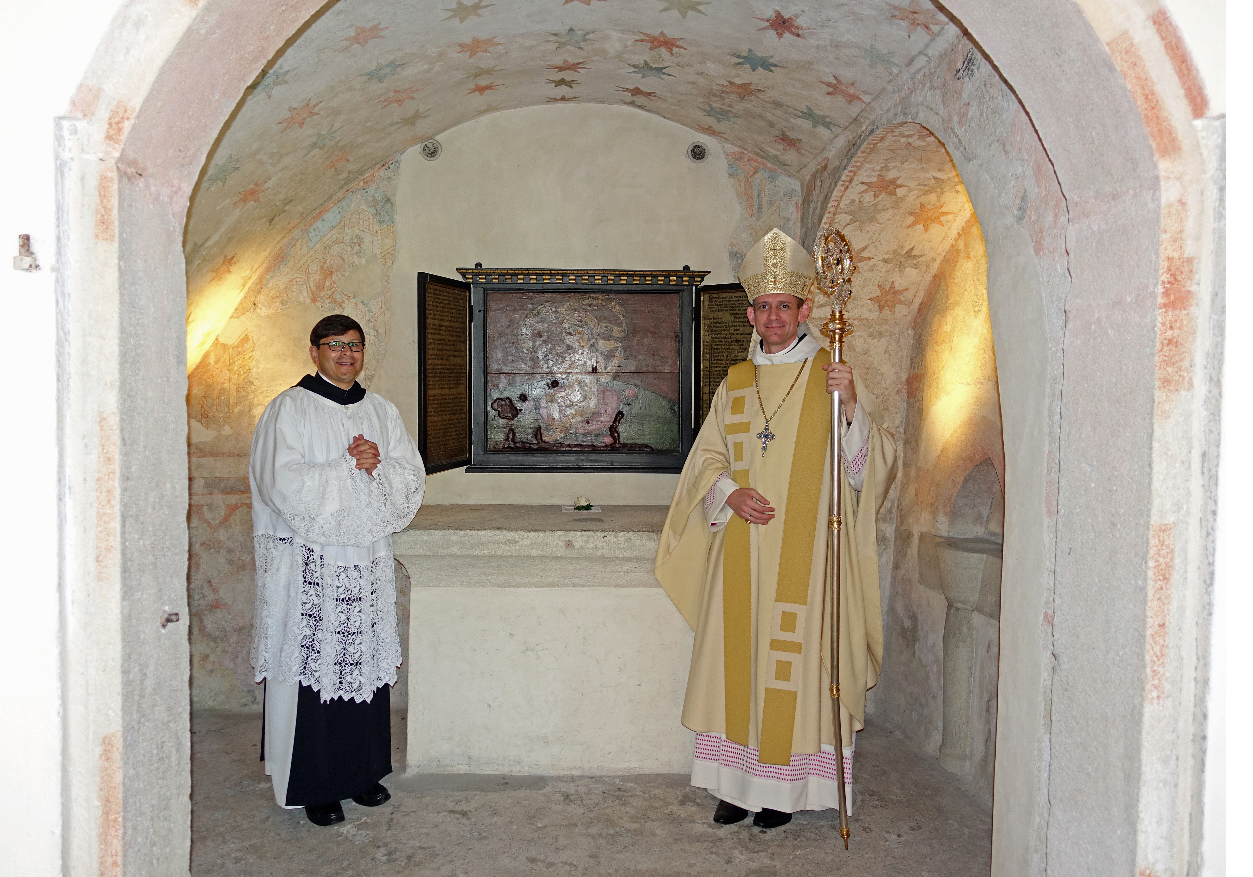 Abt Anselm van der Linde OCist visits the Infant Jesus of Wettingen.